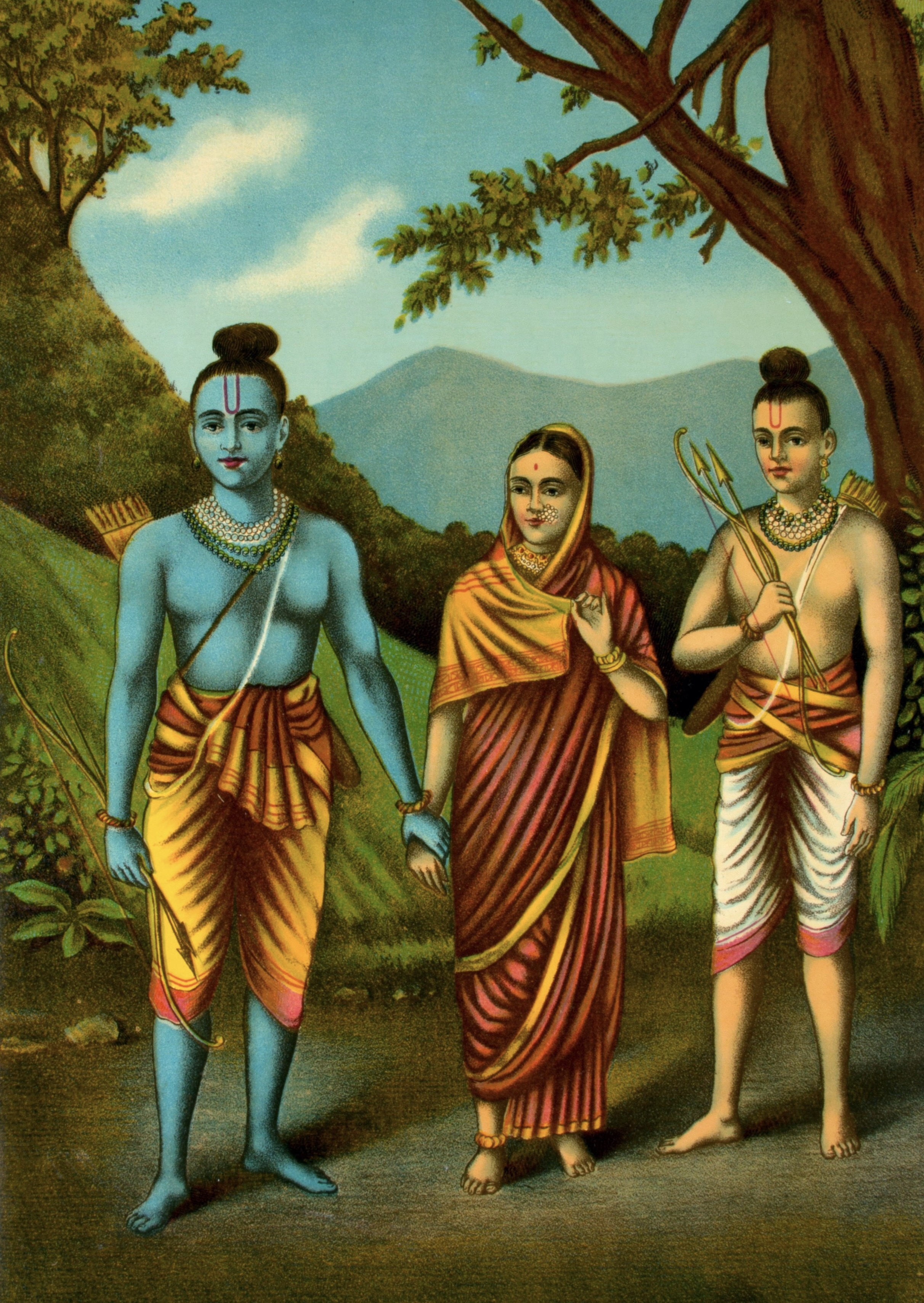 Rama, Sita, Lakshmana Date: ca. 1880–1900 Culture: India Medium: Lithograph with varnish Dimensions: Image: 13 1/2 × 9 3/4 in. (34.3 × 24.8 cm) Sheet: 13 7/8 × 9 7/8 in. (35.2 × 25.1 cm) Classification: Prints Credit Line: Purchase, Gift of Mrs. William J. Calhoun, by exchange, 2013 Accession Number: 2013.7 This artwork is not on display